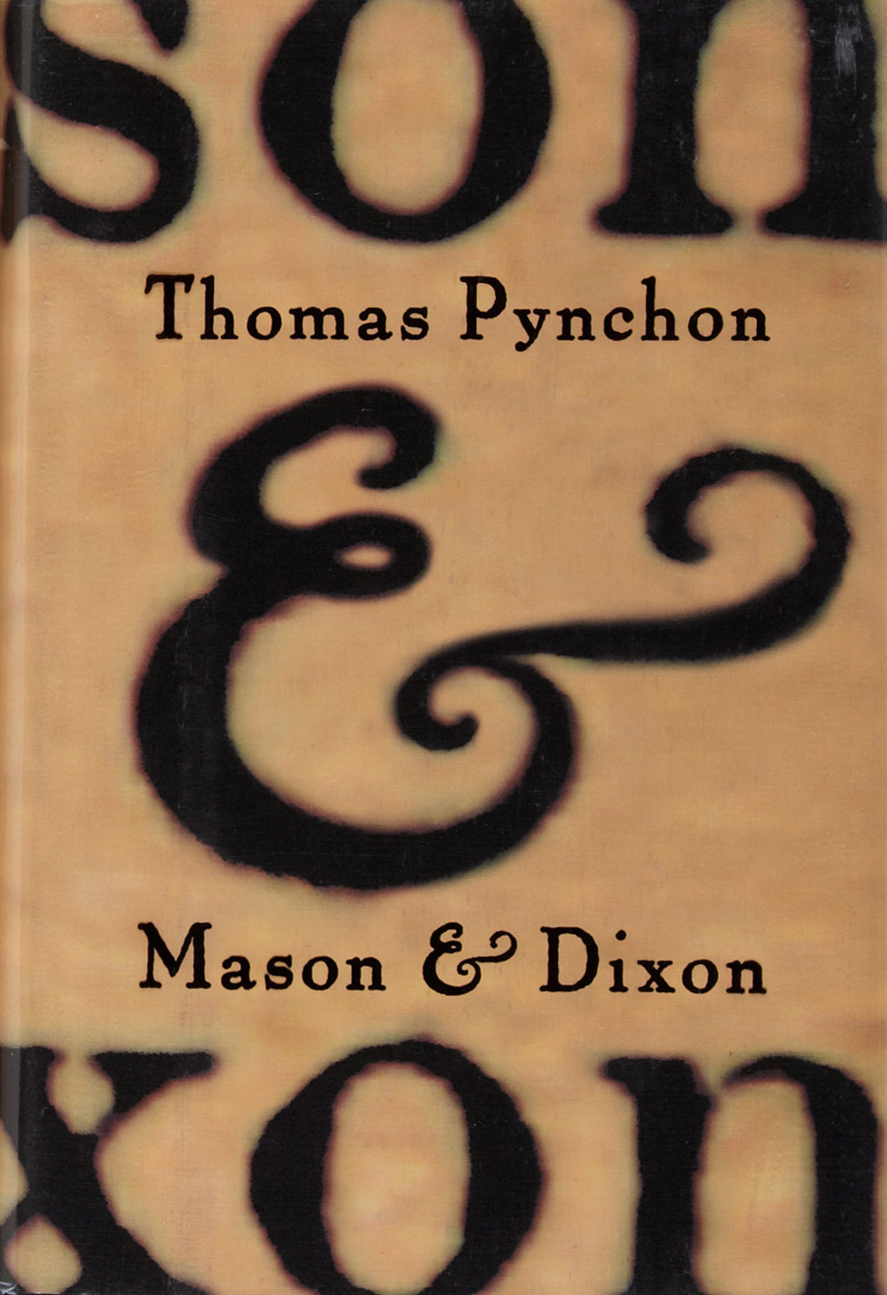 First-edition dust jacket cover of Mason & Dixon (1997) by the American author Thomas Pynchon.